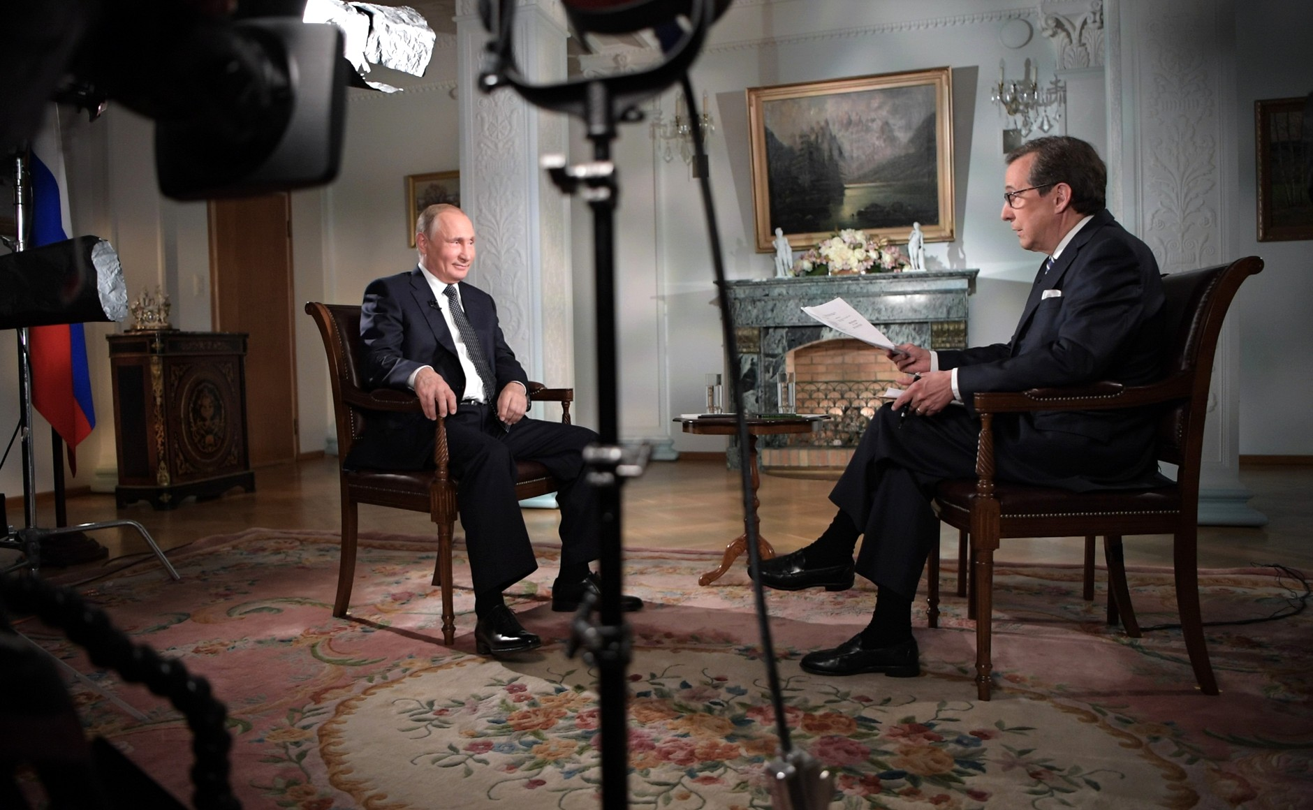 Vladimir Putin answered questions from Fox News Sunday host Chris Wallace in an interview recorded in Helsinki, Finland, on July 16, 2018.